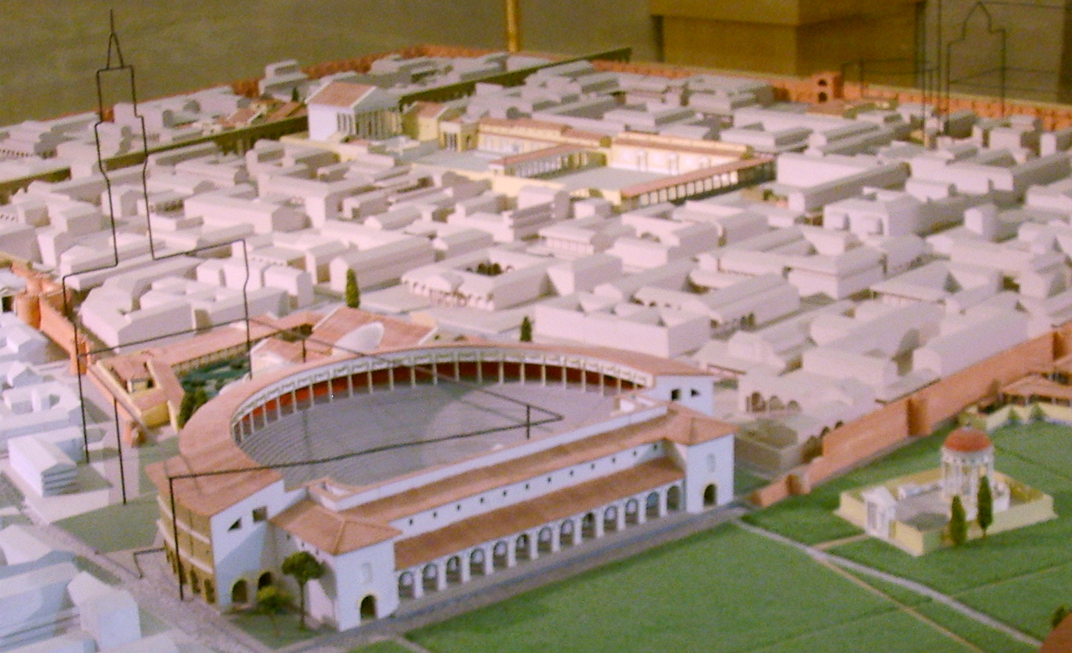 Museo Firenze com'era, archaeological room, florentia's reconstruction in Florence, italy